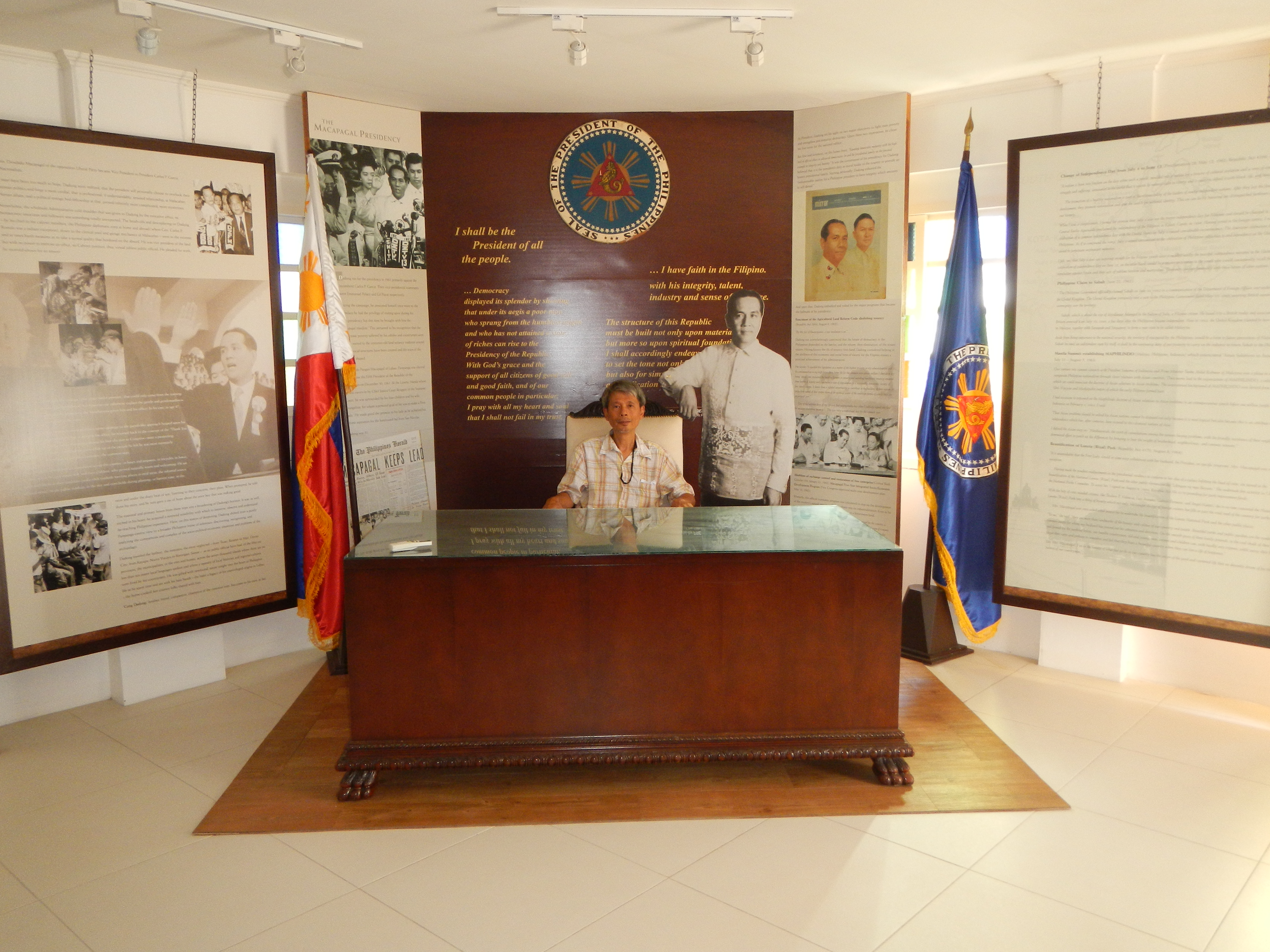 Diosdado Macapagal[1]house and museumLubao, Pampanga [2]